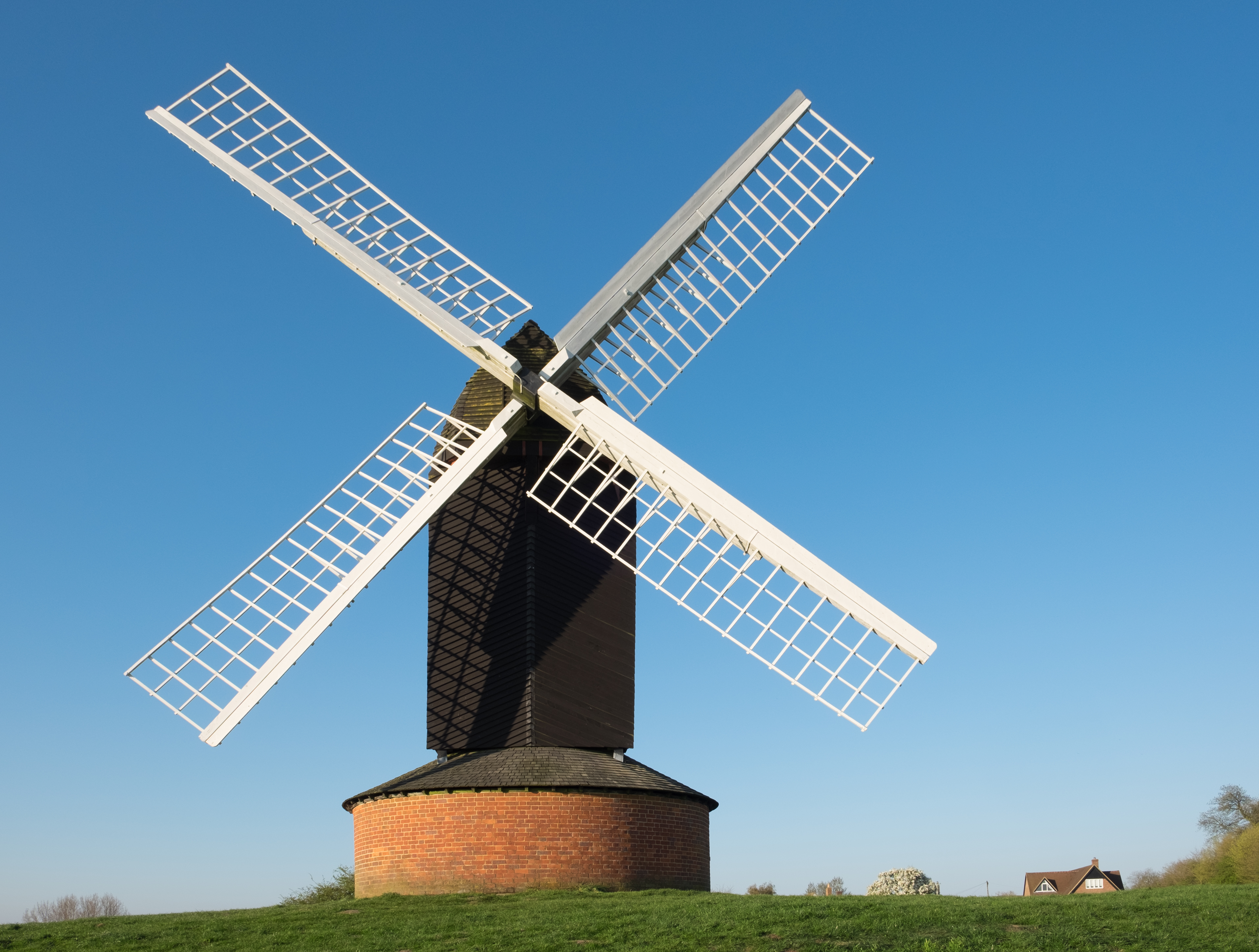 Brill windmill, Buckinghamshire. This late 17th century post mill is a Grade II* listed building in England.